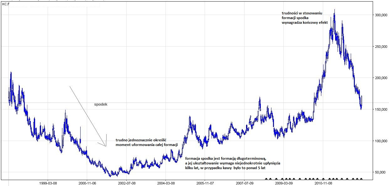 saucer formation technical analysis